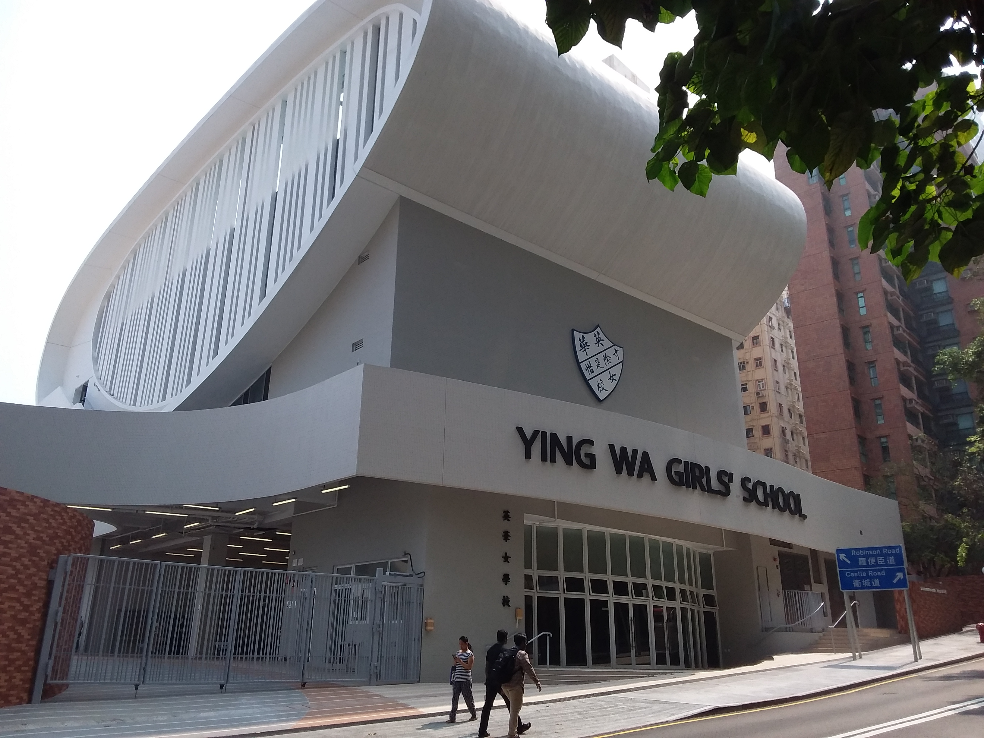 HK 半山區 Mid-levels 羅便臣道 Robinson Road 英華女學校 Ying Wa Girls' School April 2019